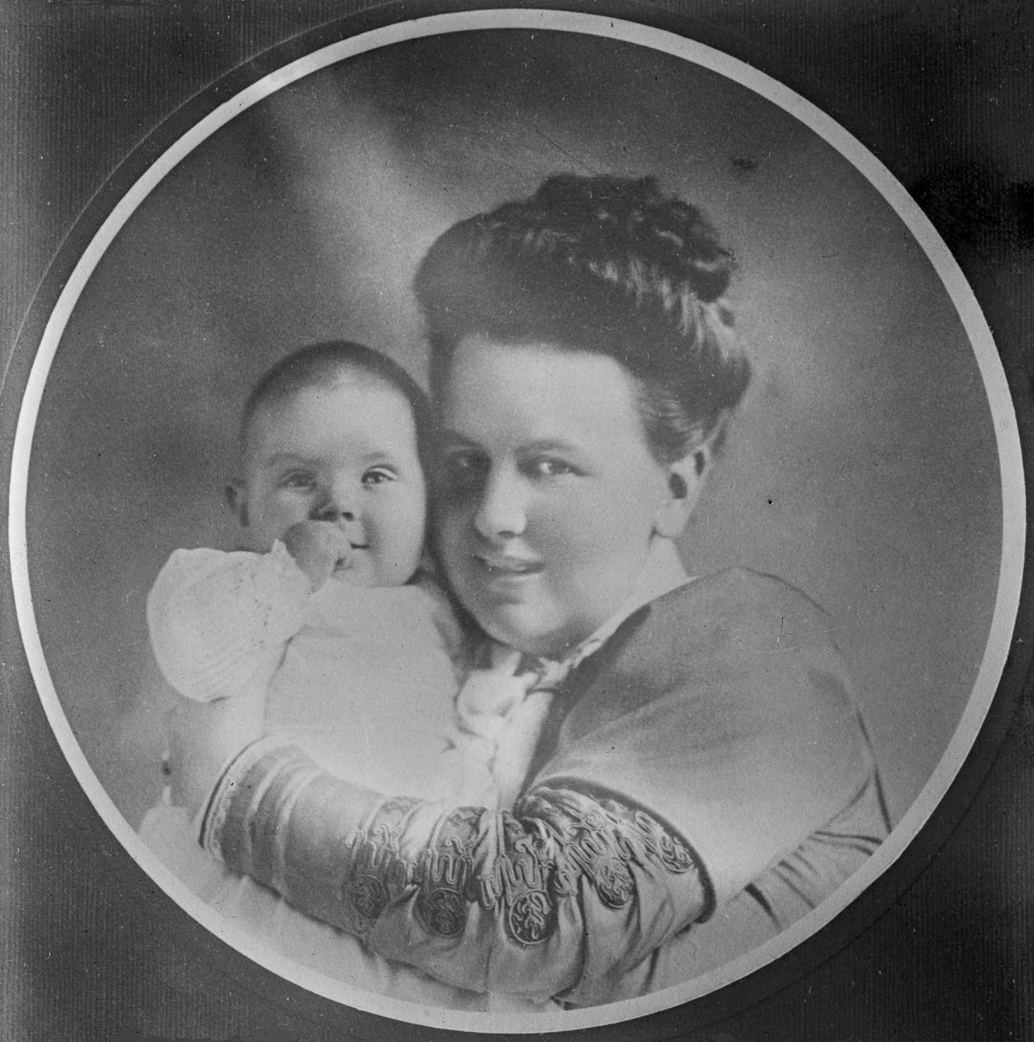 Queen Wilhelmina of the Netherlands holding Princess Juliana, cameo portrait